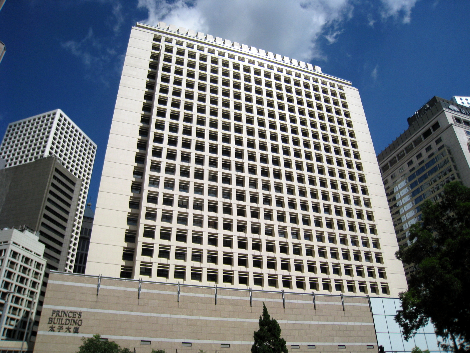 HK Princes Building 香港 太子大廈